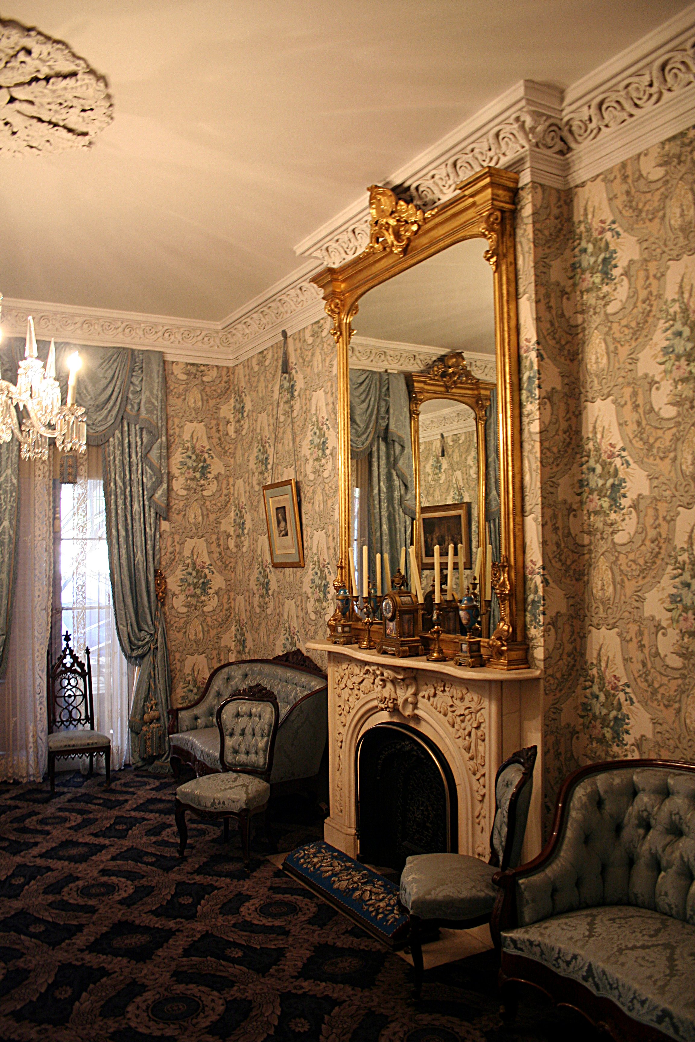 Photograph of the sitting room in the Theodore Roosevelt Birthplace National Historical Site in New York City, United States of America